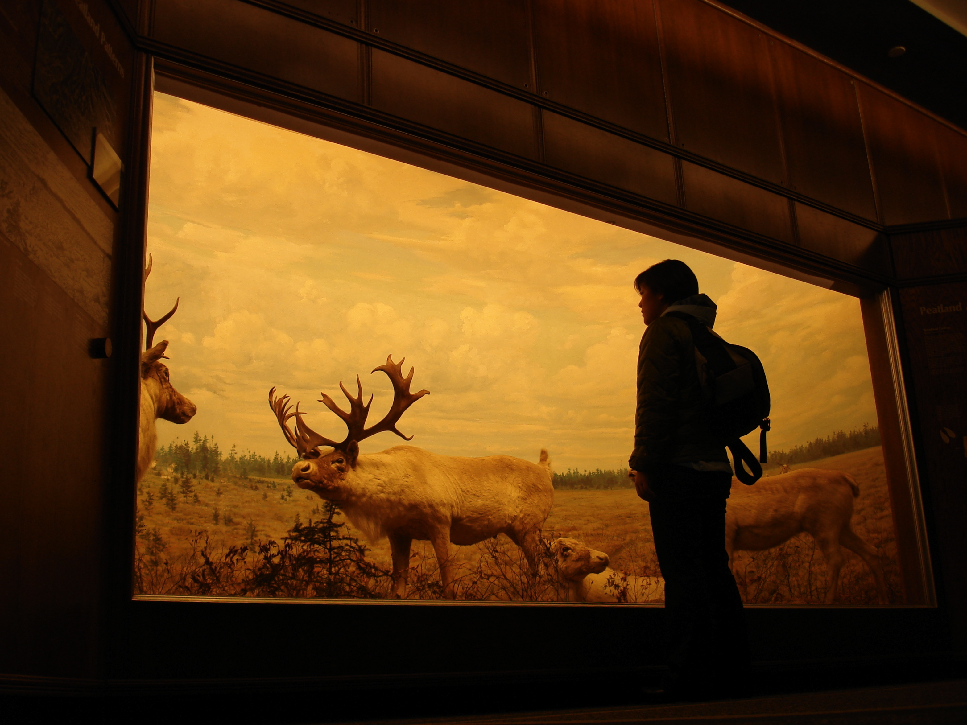 A visitor viewing a diorama at the Bell Museum of Natural History in Minneapolis, MN.